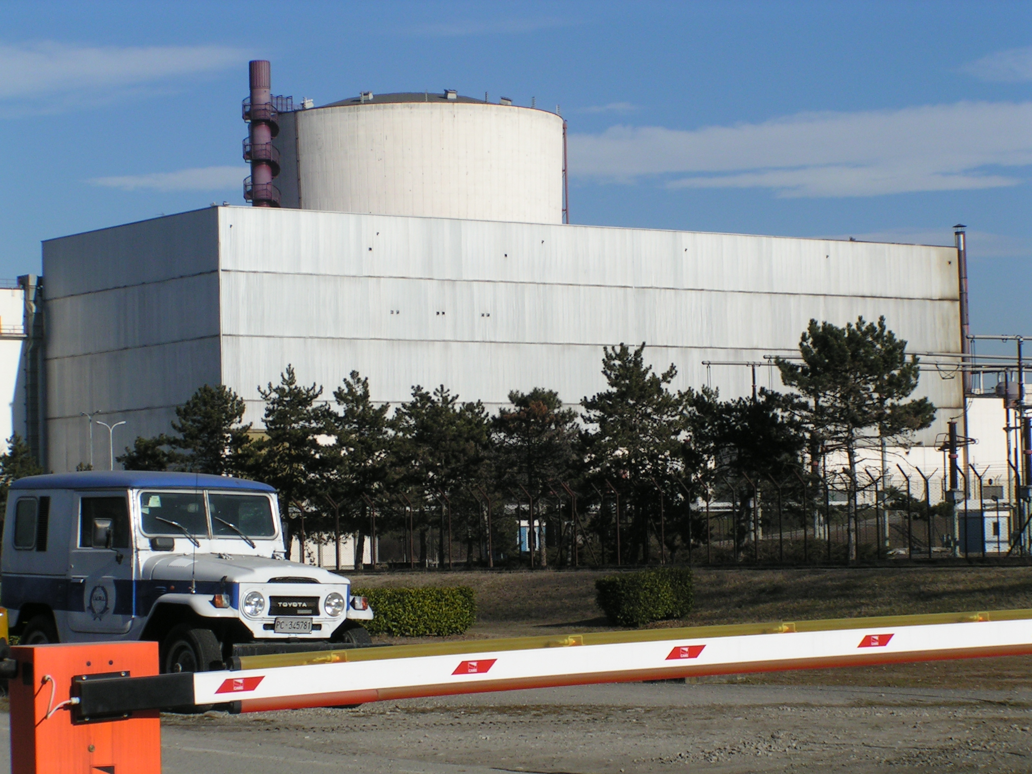 See where this picture was taken [?]